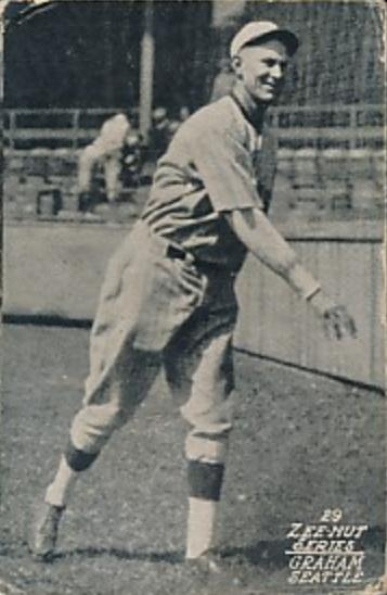 A baseball card of Skinny Graham from the 1929 Zeenut set.